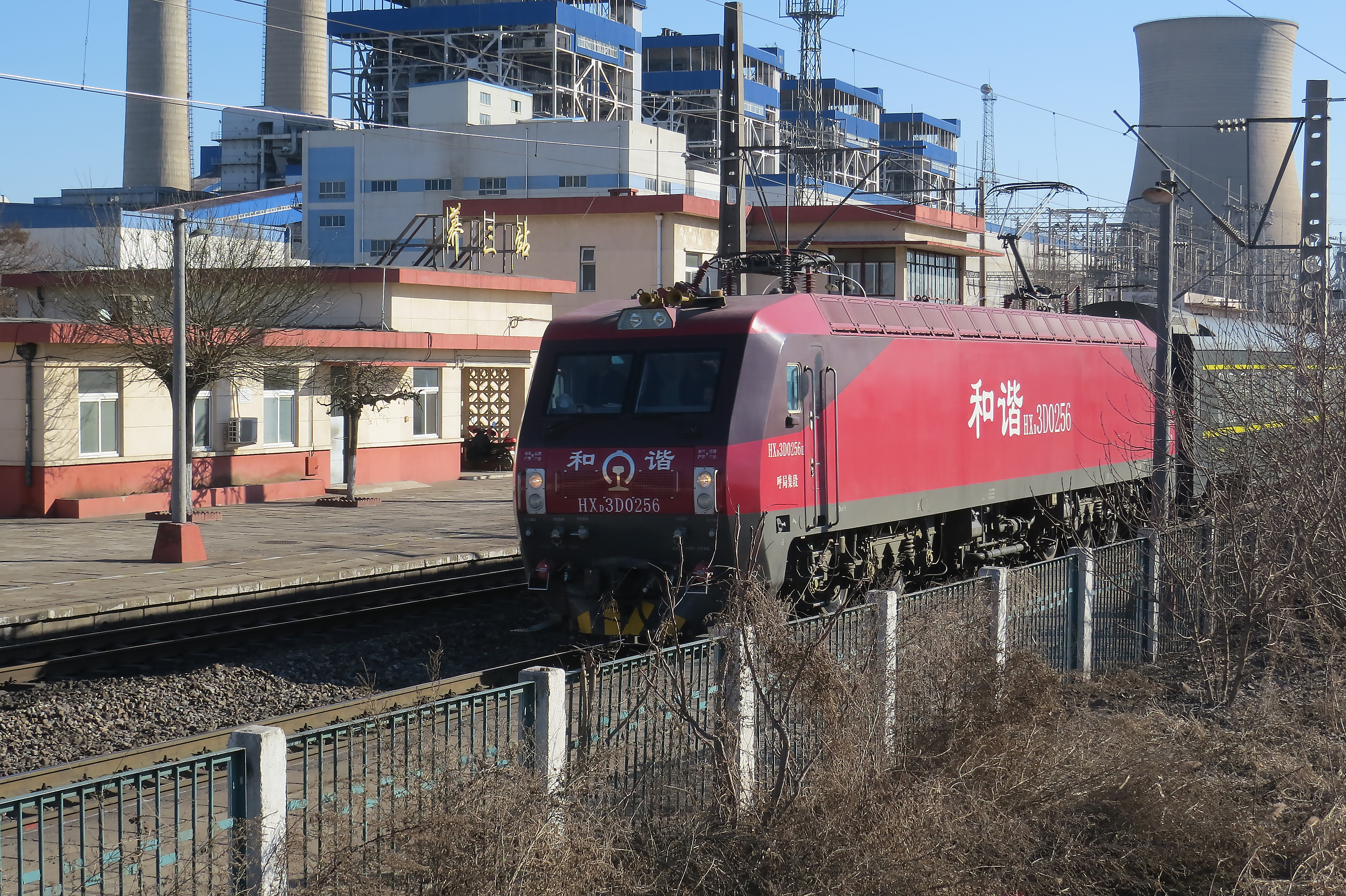 Z337 from Nanning to Baotou. This is the first train linking Guangxi and Inner Mongolia, the two autonomous regions in distance.